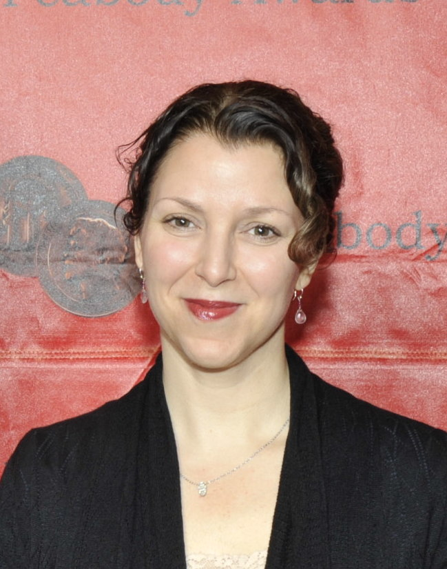 PHOTO CREDIT: ANDERS KRUSBERG / PEABODY AWARDS David Fanning, Raney Aronson-Rath 70th Annual Peabody Awards Luncheon Waldorf=Astoria Hotel May 23, 2011